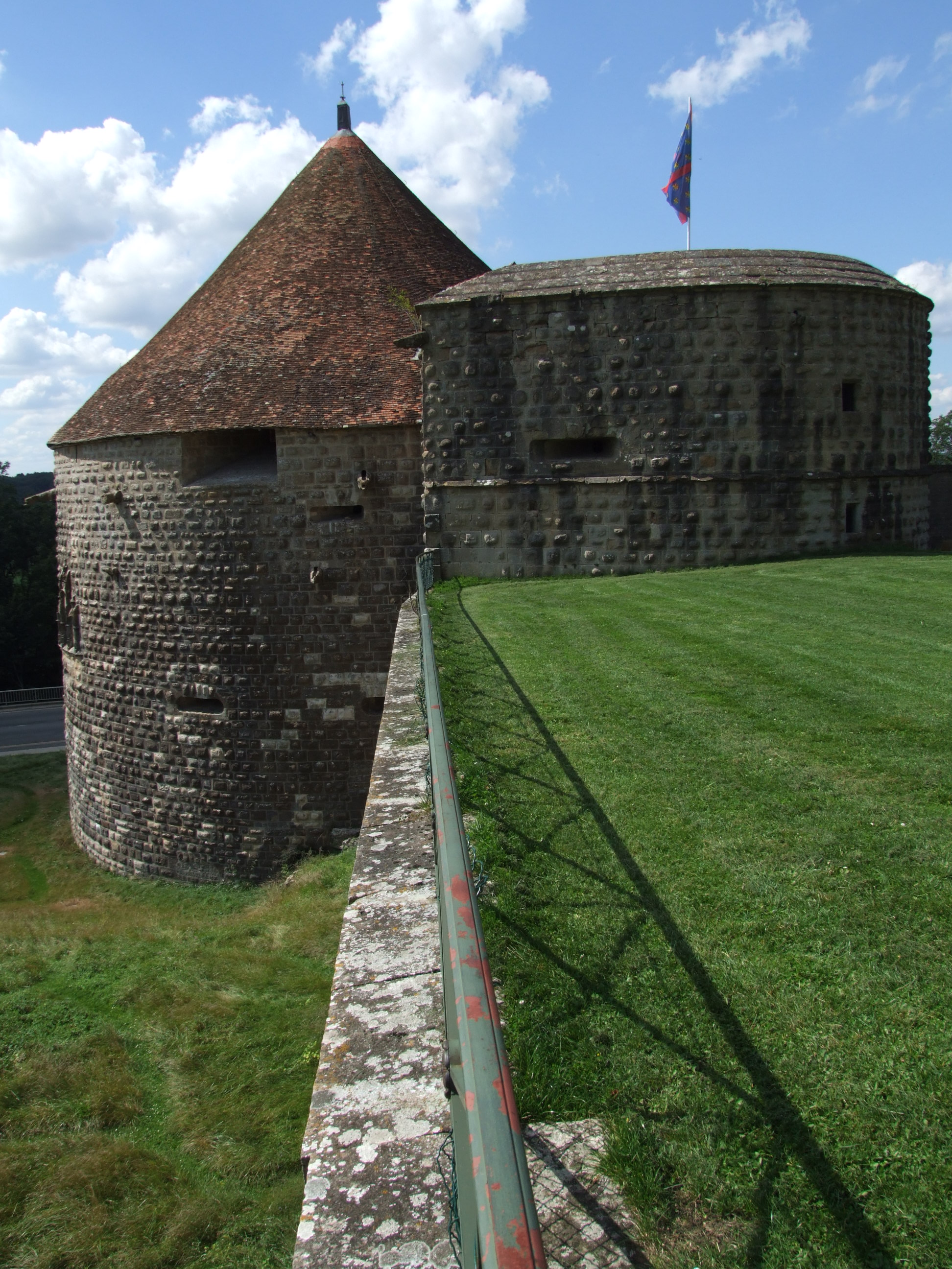 Tower of Navarre and Orval, Langres, FRANCE